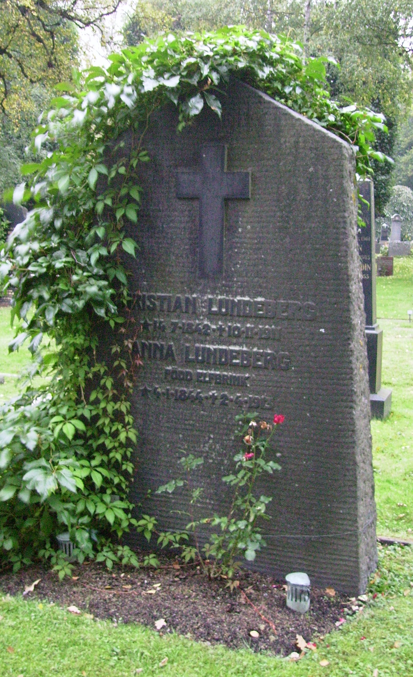 Picture of Christian Lundeberg's grave at Norra begravningsplatsen i Solna